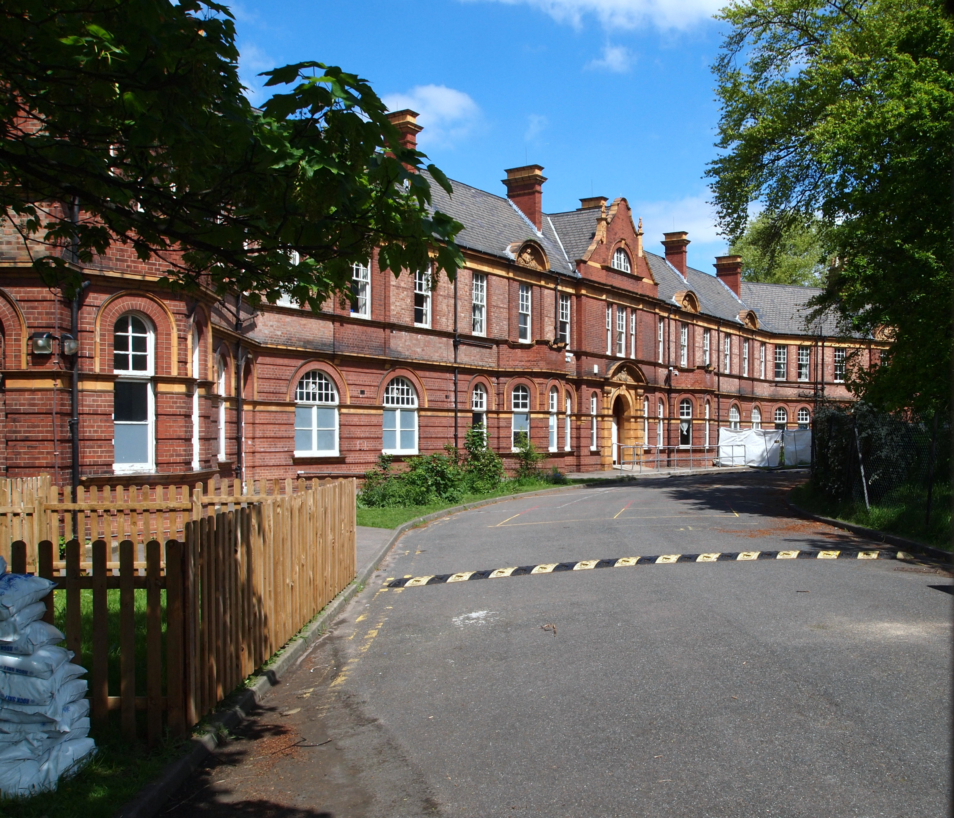 Victoria House, Shooters Hill, London SE18